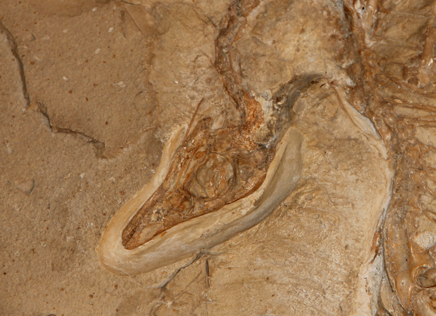 Detail of skull of Archaeopteryx lithographica fossil displayed at the Museum für Naturkunde in Berlin. (Original specimen; not a cast)